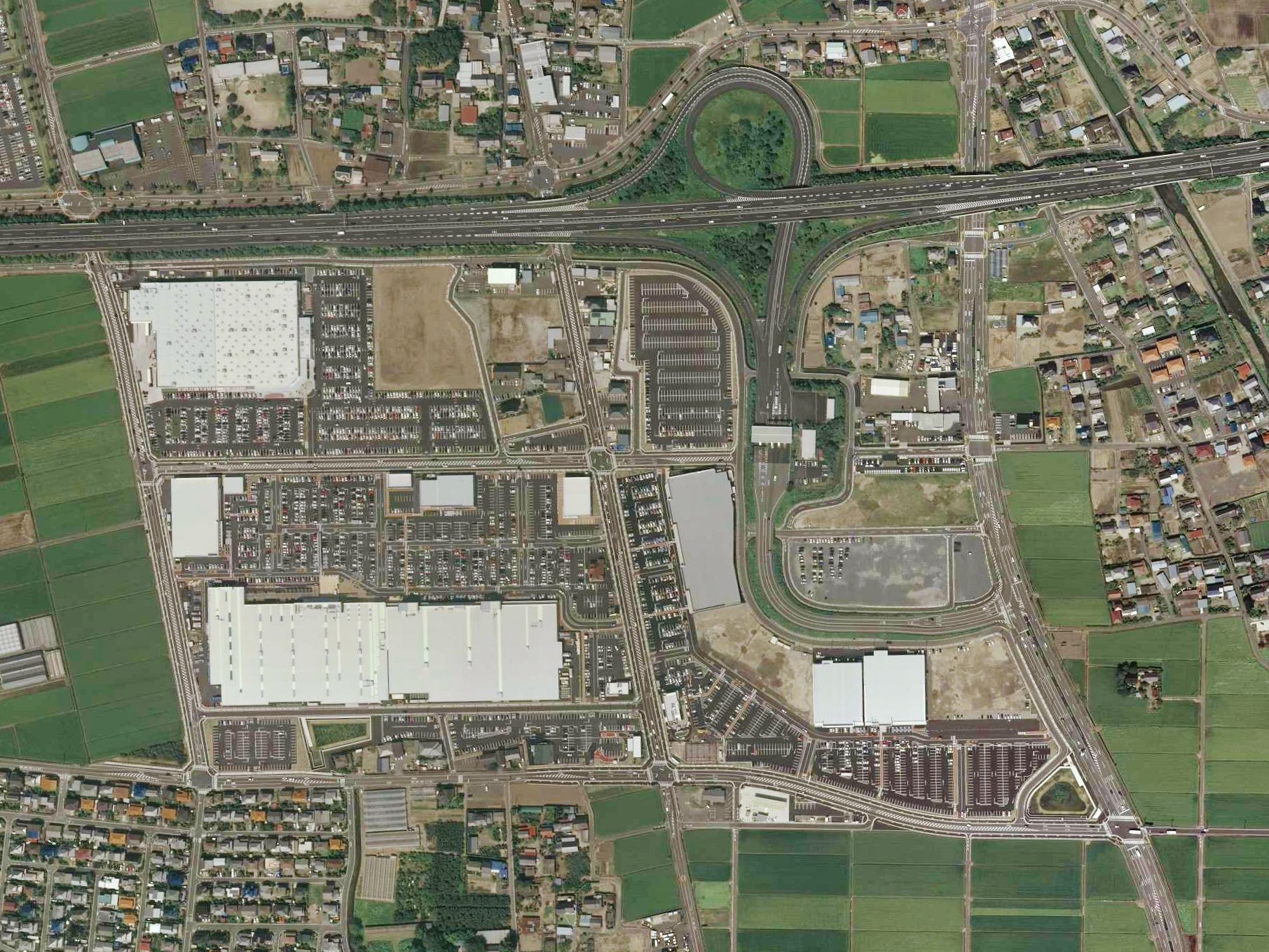 Maebashi-minami Interchange.